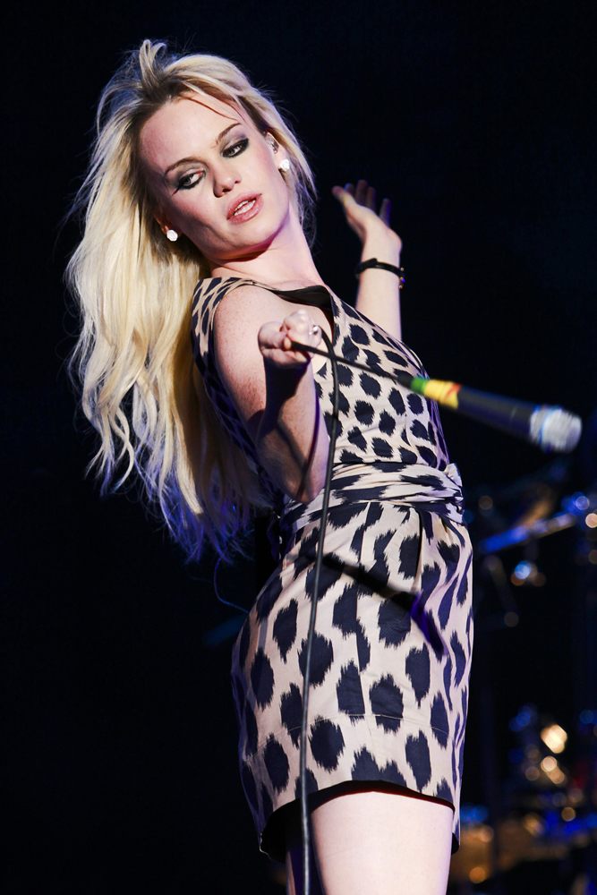 Welsh singer Duffy during her performance live at the Superbock Festival, at Estádio do Restelo, Belém, July 18th, in Lisbon.